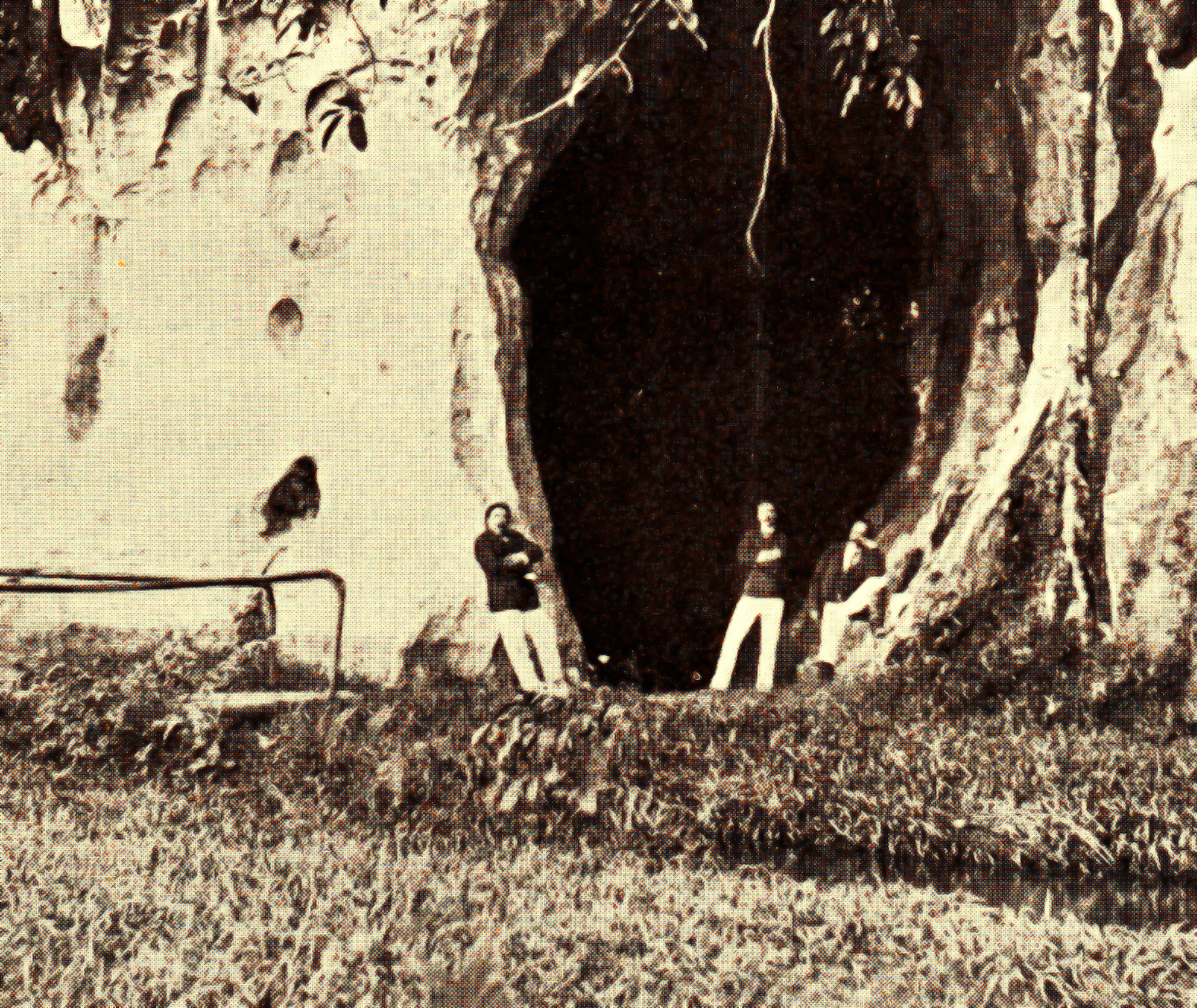 Wouter Cool bij marmergroeve